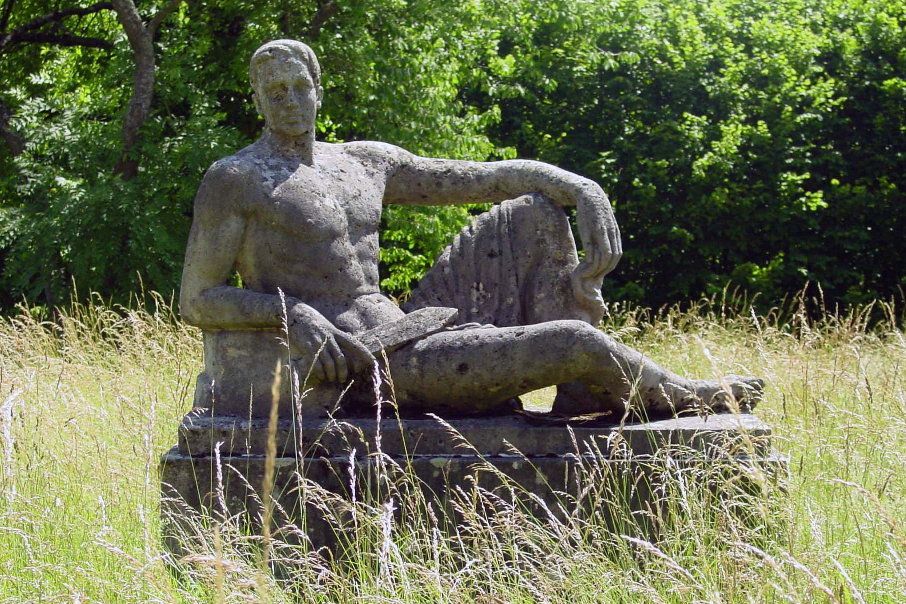 Statue of a warrior in the garden of a former military hospital in Tübingen